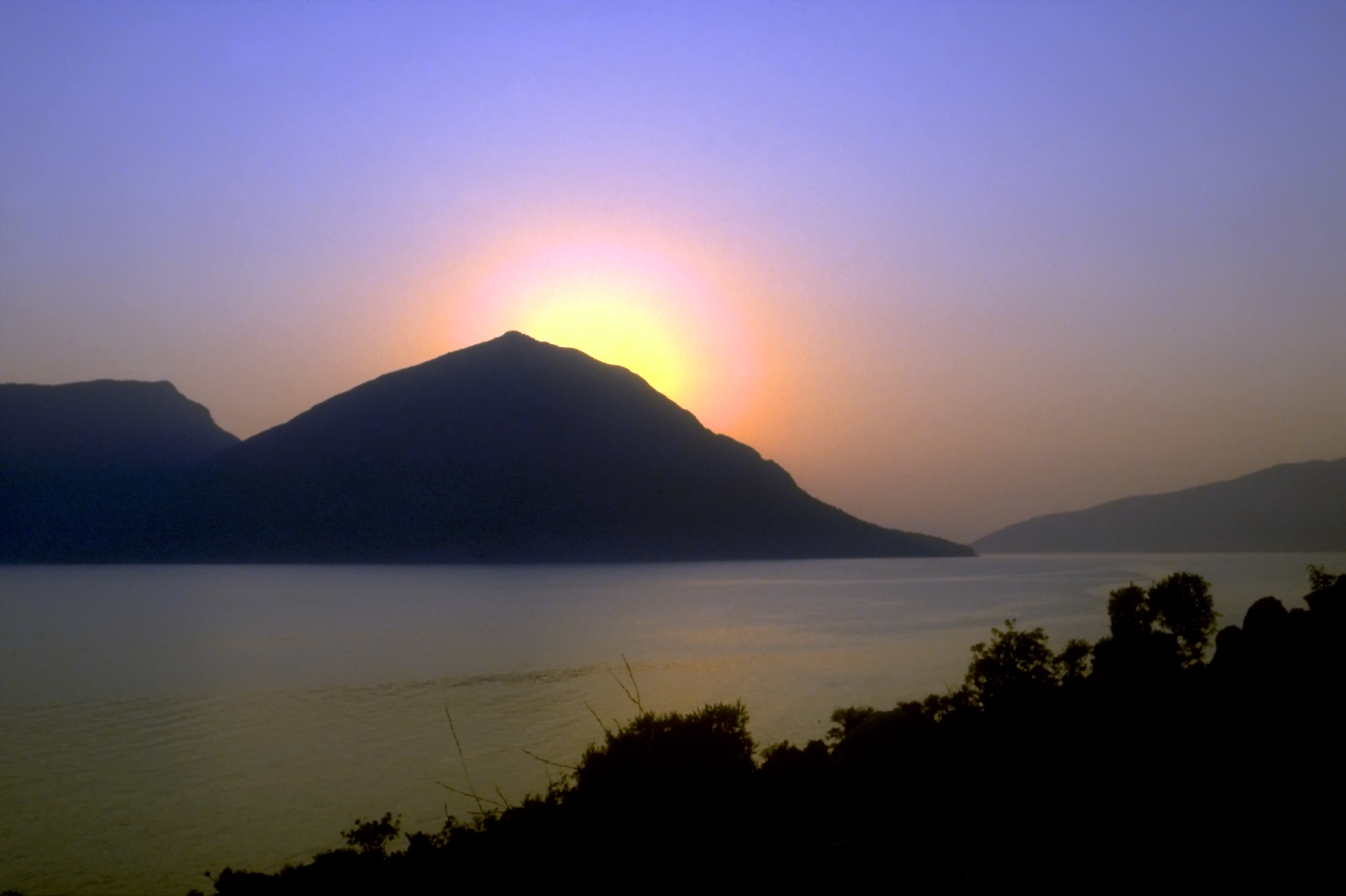 Sunset behind the island of Kalamos in the Ionian Sea in Greece seen from the eastern mainland.